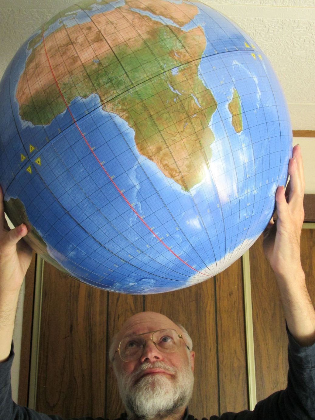 Gene Keyes holding world's first one-gree globe. Commissioned by Gene Keyes; produced by Joe Roubal.